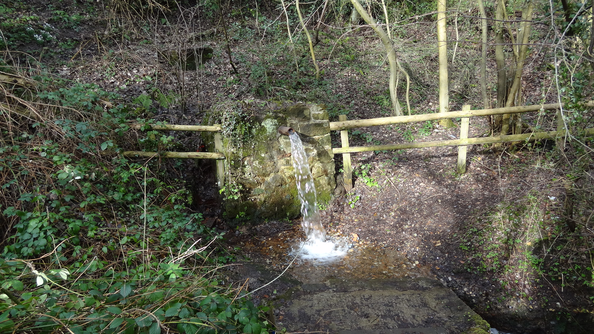 The Spout, Benthall, Shropshire: the only clean water supply for most of the village until the 1960's